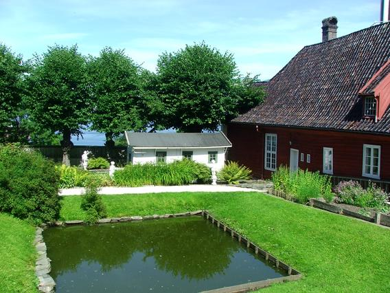 The Lady's garden, Damsgård hovedgård, Bergen, Norway.